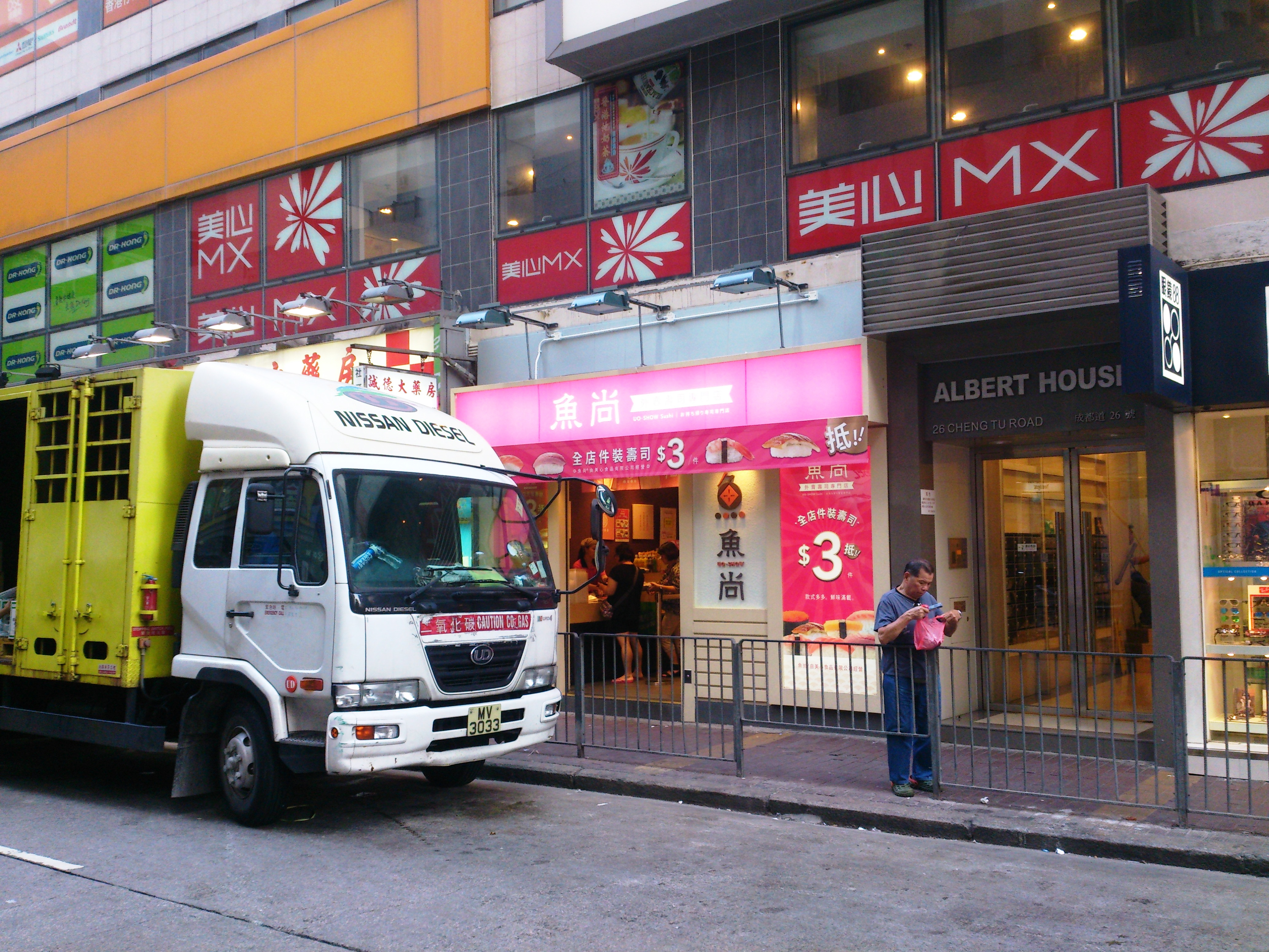 Uo Show Shusi Aberdeen Branch